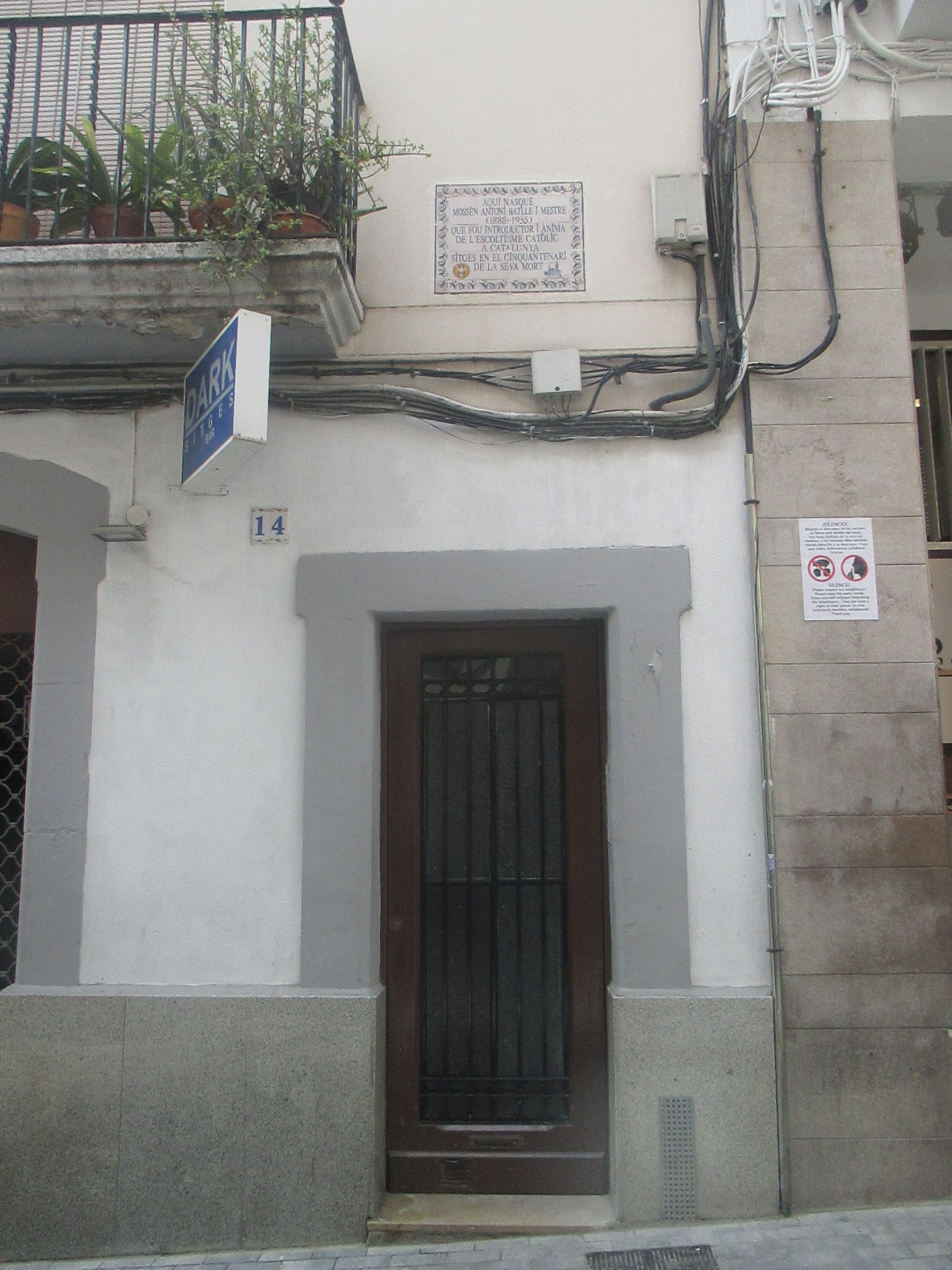 Antoni Batlle's birthplace (Sitges, Catalonia)